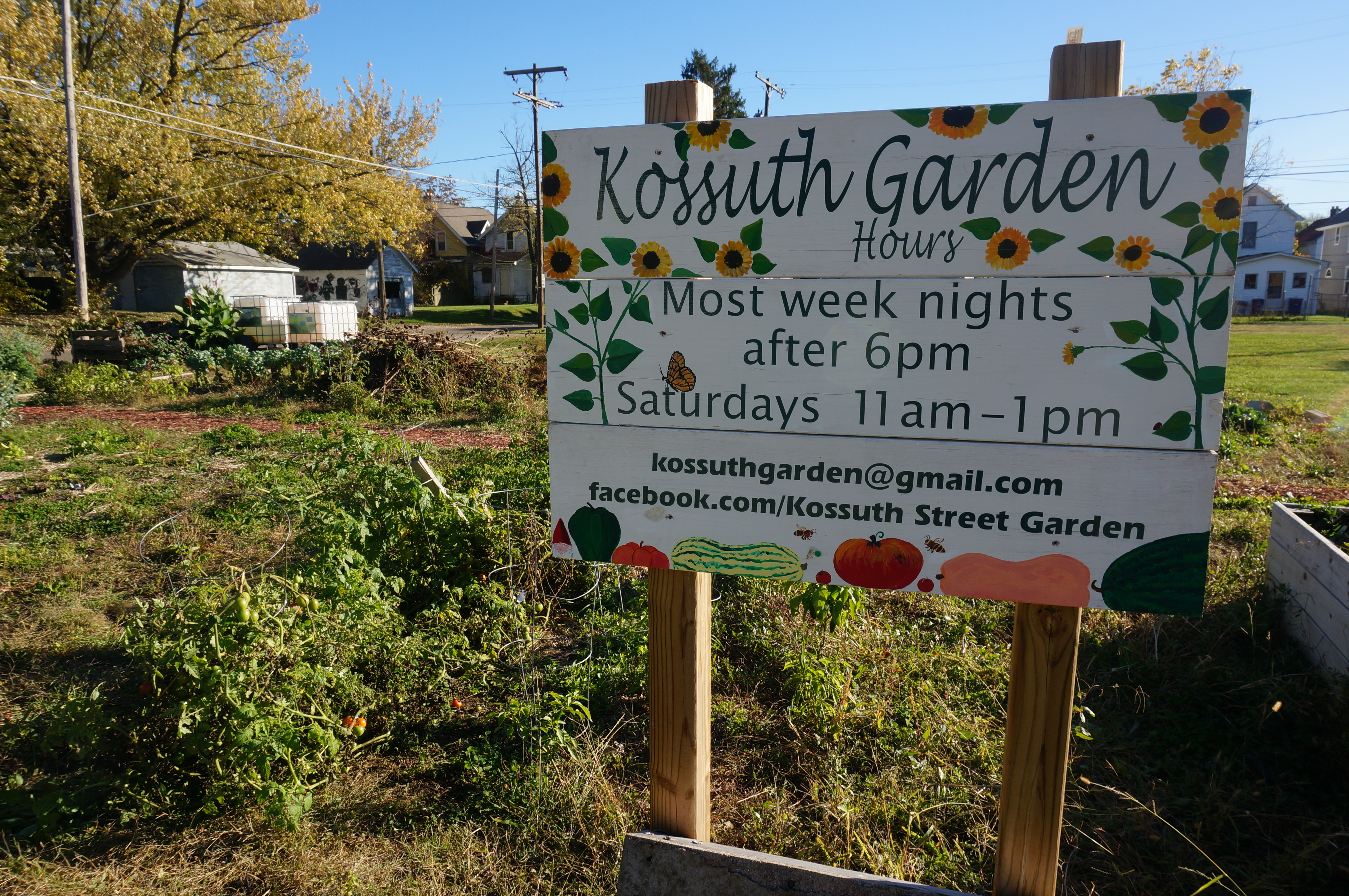 Kossuth Garden located at 641 E. Kossuth St., Columbus, Ohio, USA.